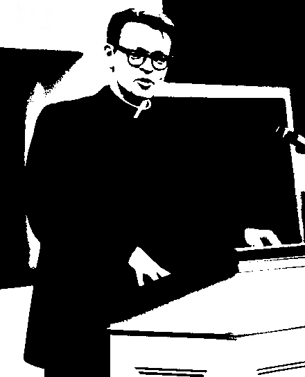 Raymond Edward Brown (1928–1998), American Catholic priest and prominent Biblical scholar. Monochrome representation.